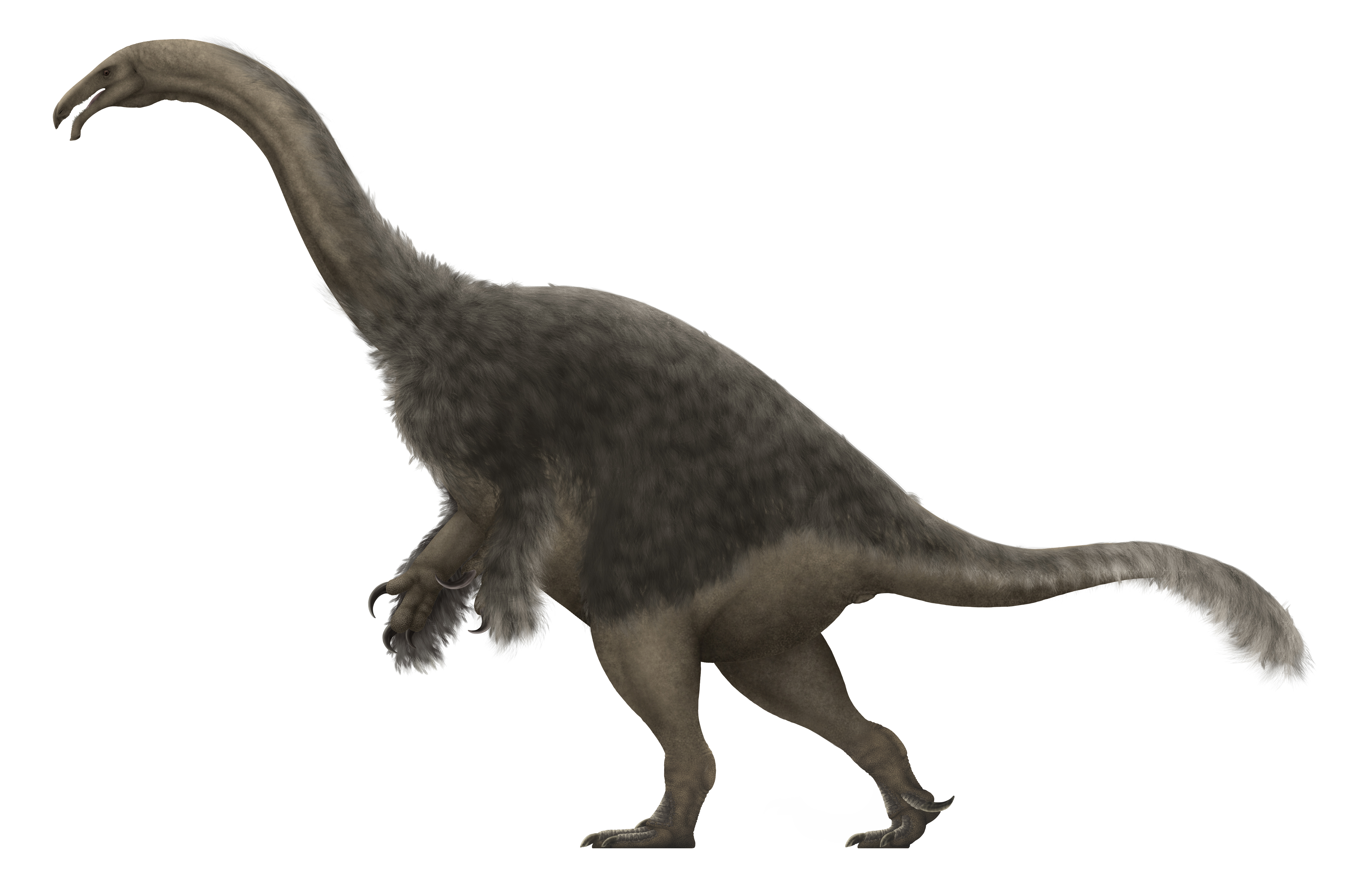 Life restoration of the therizinosaur Segnosaurus galbinensis.